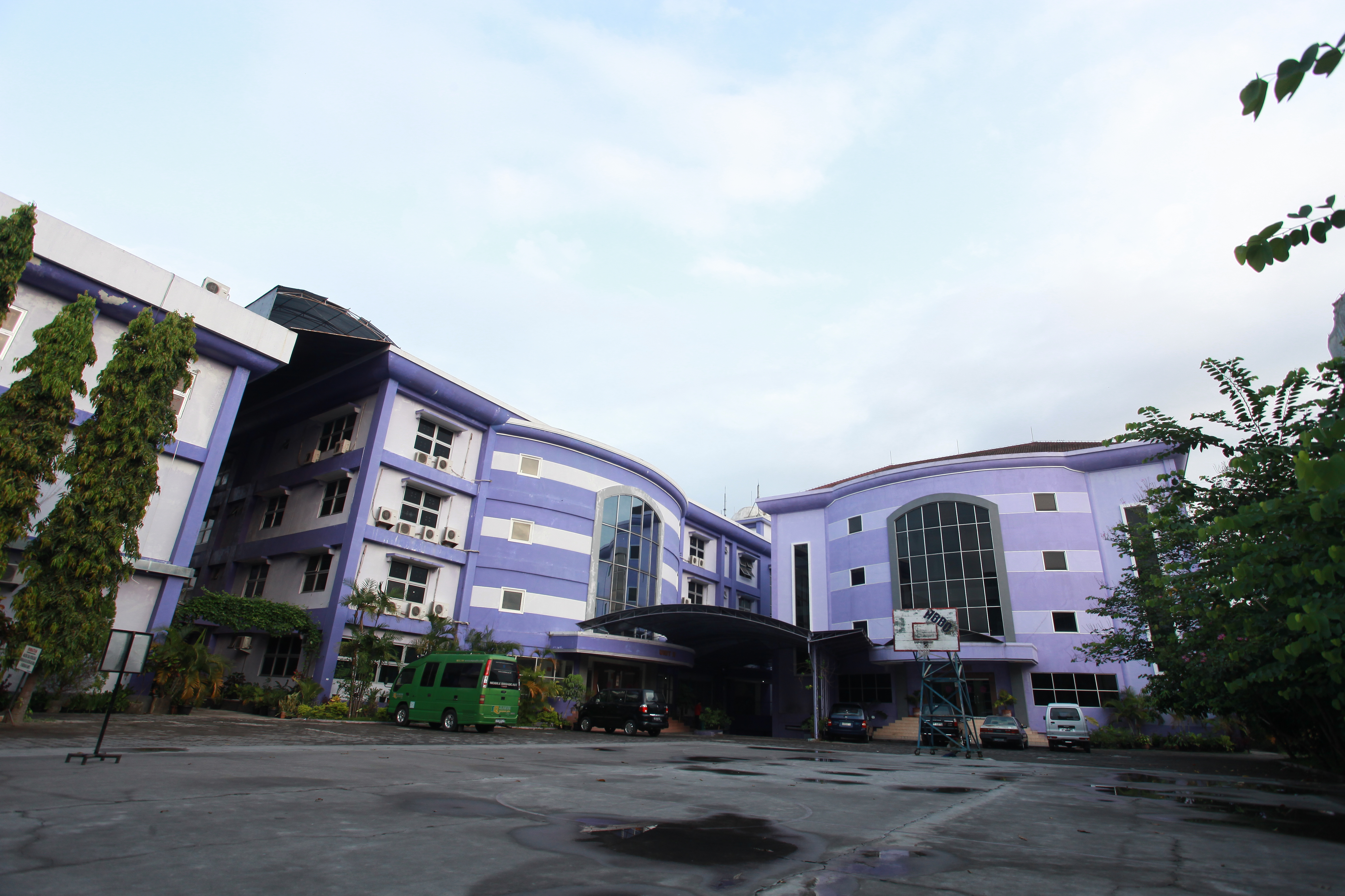 Unit 2 and 3 Buildings